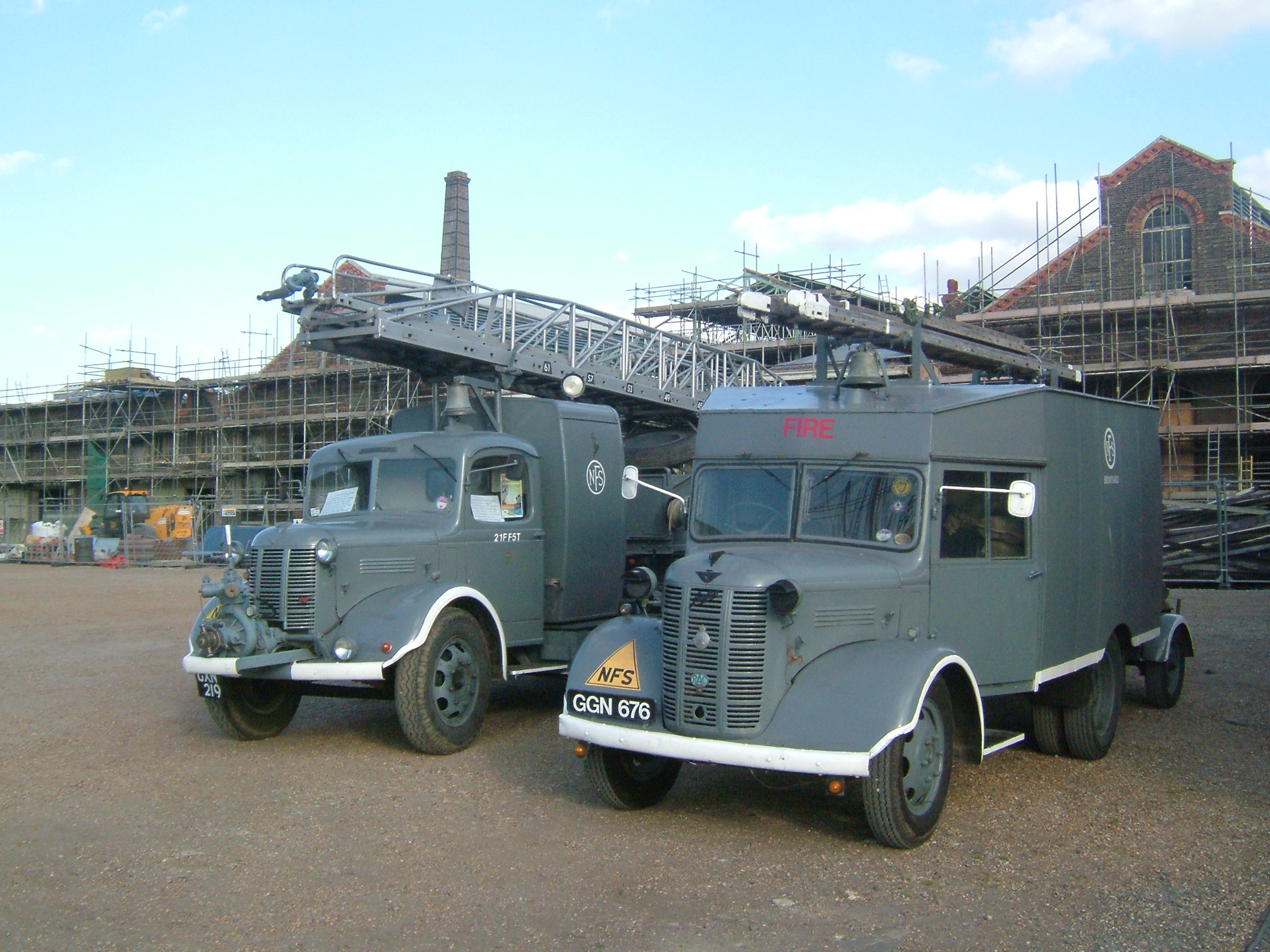 Chatham Dockyard, Kent,England has the finest collection of 18th and 19th century naval dockyard buildings many of which are scheduled as ancient monuments. Old Fire Engines in front of No. 1 Smithery 1808 designed by Edward Holl. Fire Engines in the livery of the NFS (Naval Fire Service). - OpenStreetMap(Info)